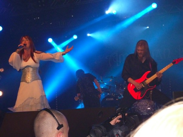 Amberian Dawn on stage at Metal Female Voices Fest 2009.